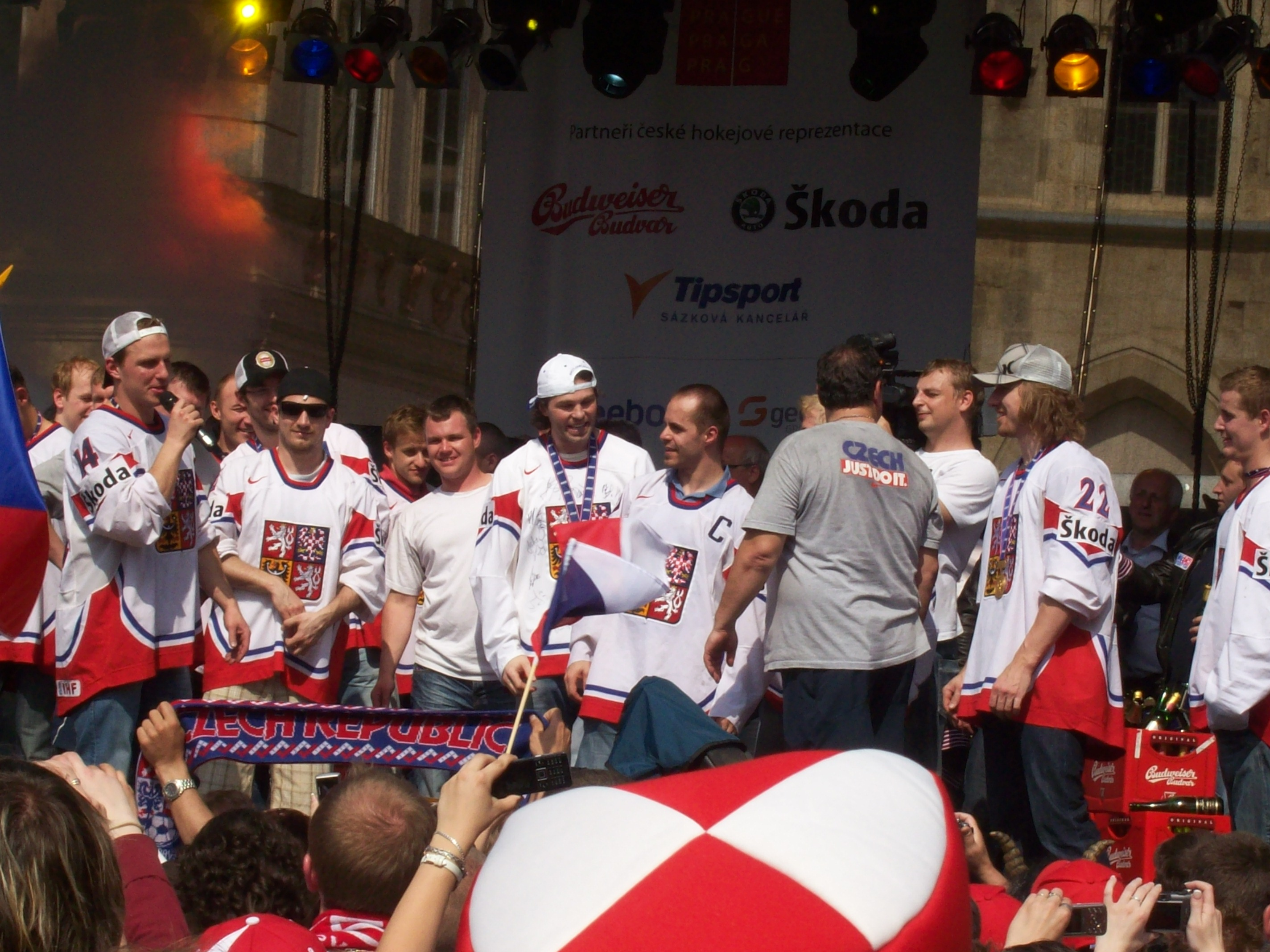 Arrival of the ice hockey world champions - Prague, Old Town Square